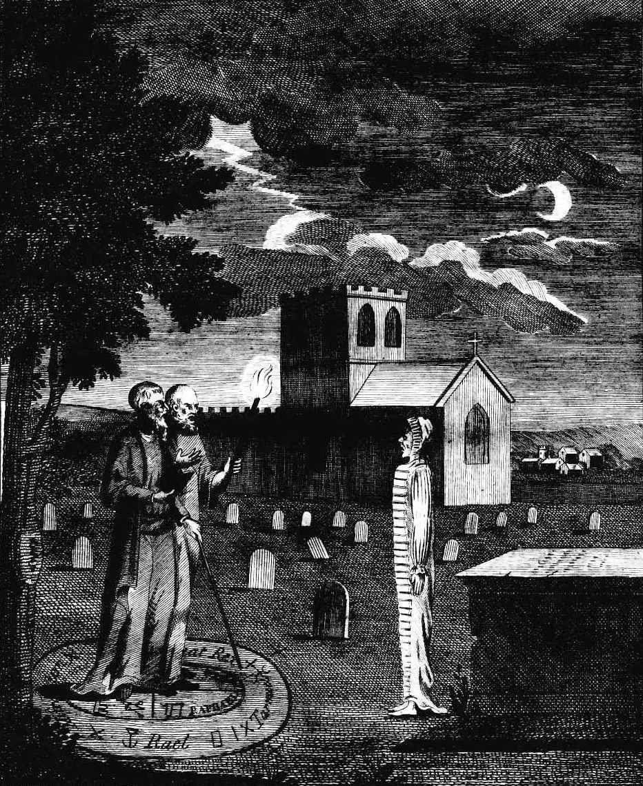 "Edw[ar]d Kelly, a Magician. in the Act of invoking the Spirit of a Deceased Person."